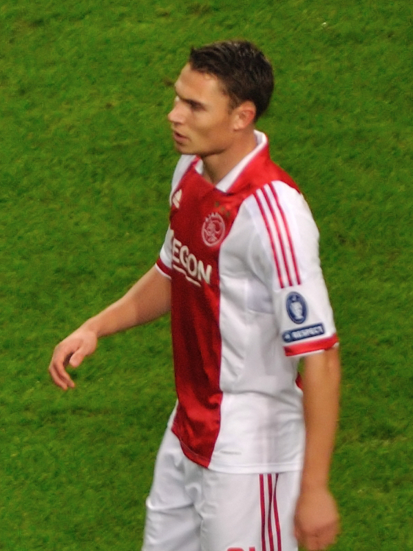 Derk Boerrigter during the Champions League match Ajax - Olympique Lyon on September 14th, 2011.